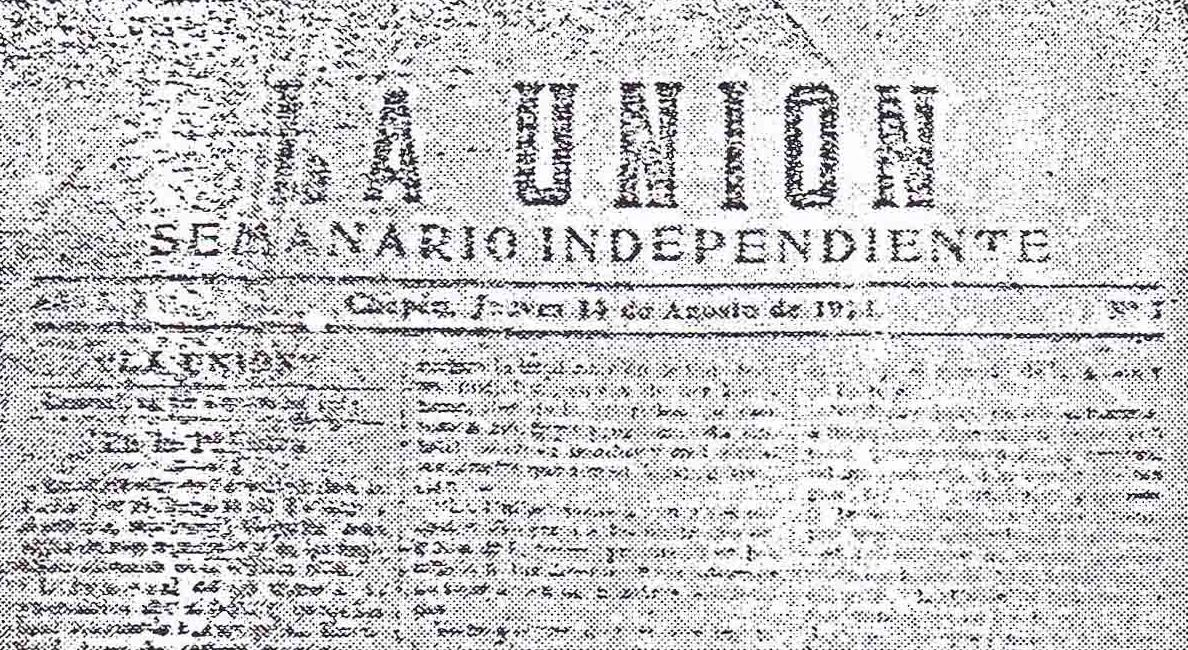 Primer ejemplar de El Comercio, Diario La Union Pacasmayo